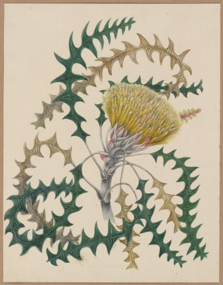 This is a watercolour painting of Banksia dallanneyi (Couch Honeypot), formerly Dryandra lindleyana. It was painted by Marrianne Collinson Campbell, and formed part of her Wild flowers, fruit and butterflies of Australia album.